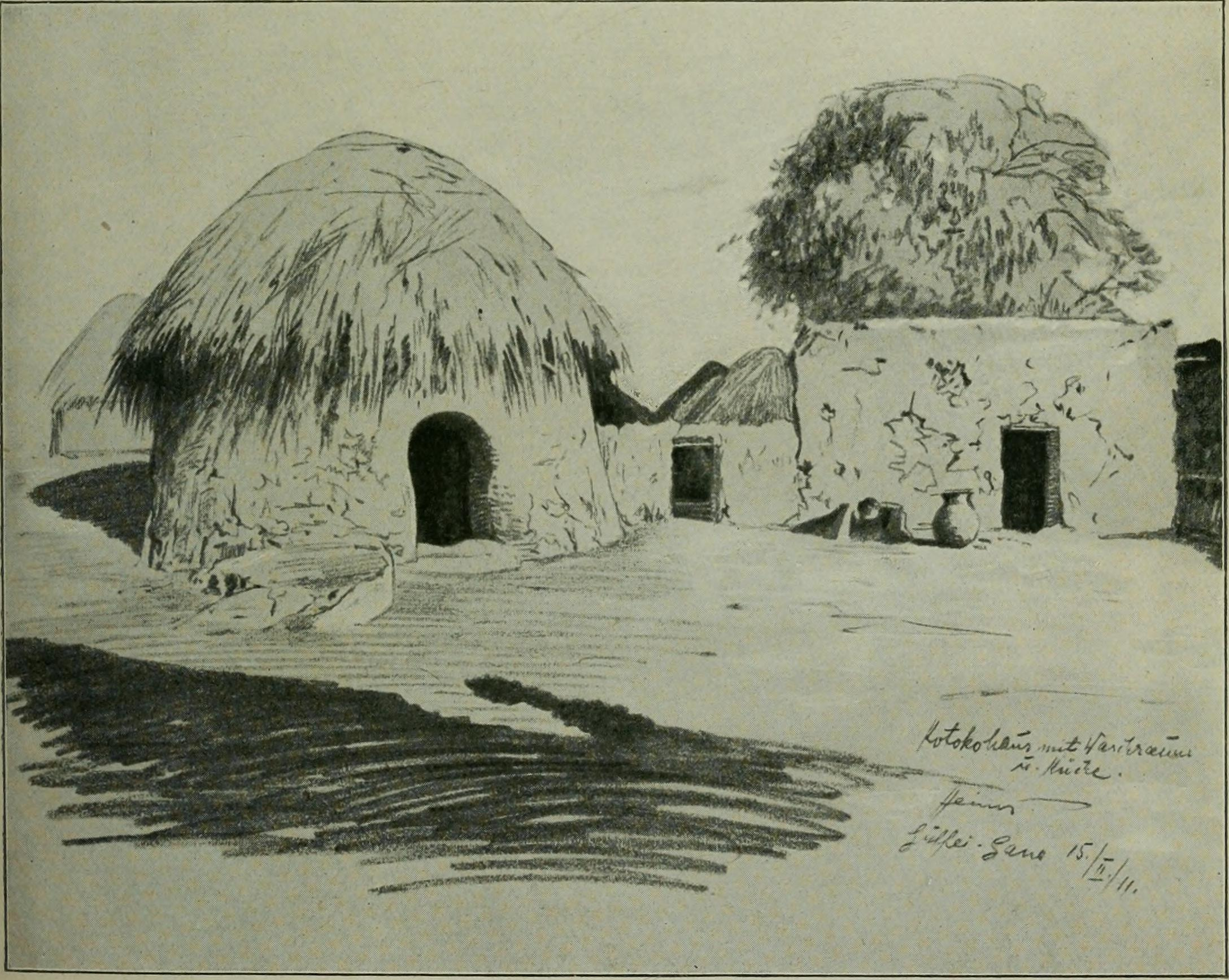 Kotoko house in Gulfei with washhouse and kitchen Title: From the Congo to the Niger and the Nile : an account of The German Central African expedition of 1910-1911 Year: 1913 (1910s) Authors: Adolf Friedrich, Duke of Mecklenburg-Schwerin, 1873-1969 Deutsche Zentral-Afrika-expedition, 1910-1911 Subjects: Publisher: London : Duckworth Text Appearing Before Image: 136. A corner in Gulfei. Text Appearing After Image: 137. Kotoko house in Gulfei with washhouse and kitchen.